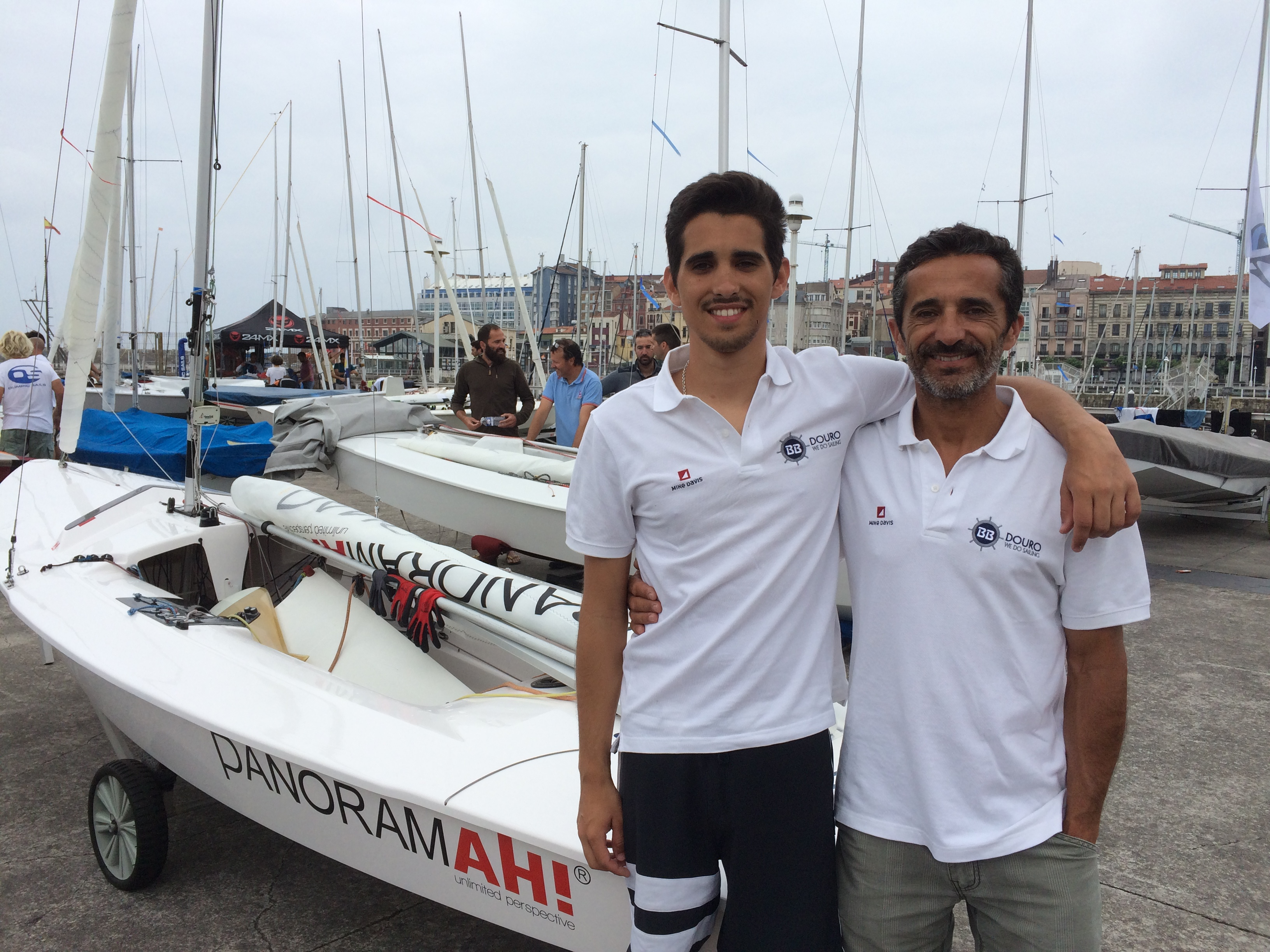 Tiago Holterman Roquette and son, Salvador, in 2018